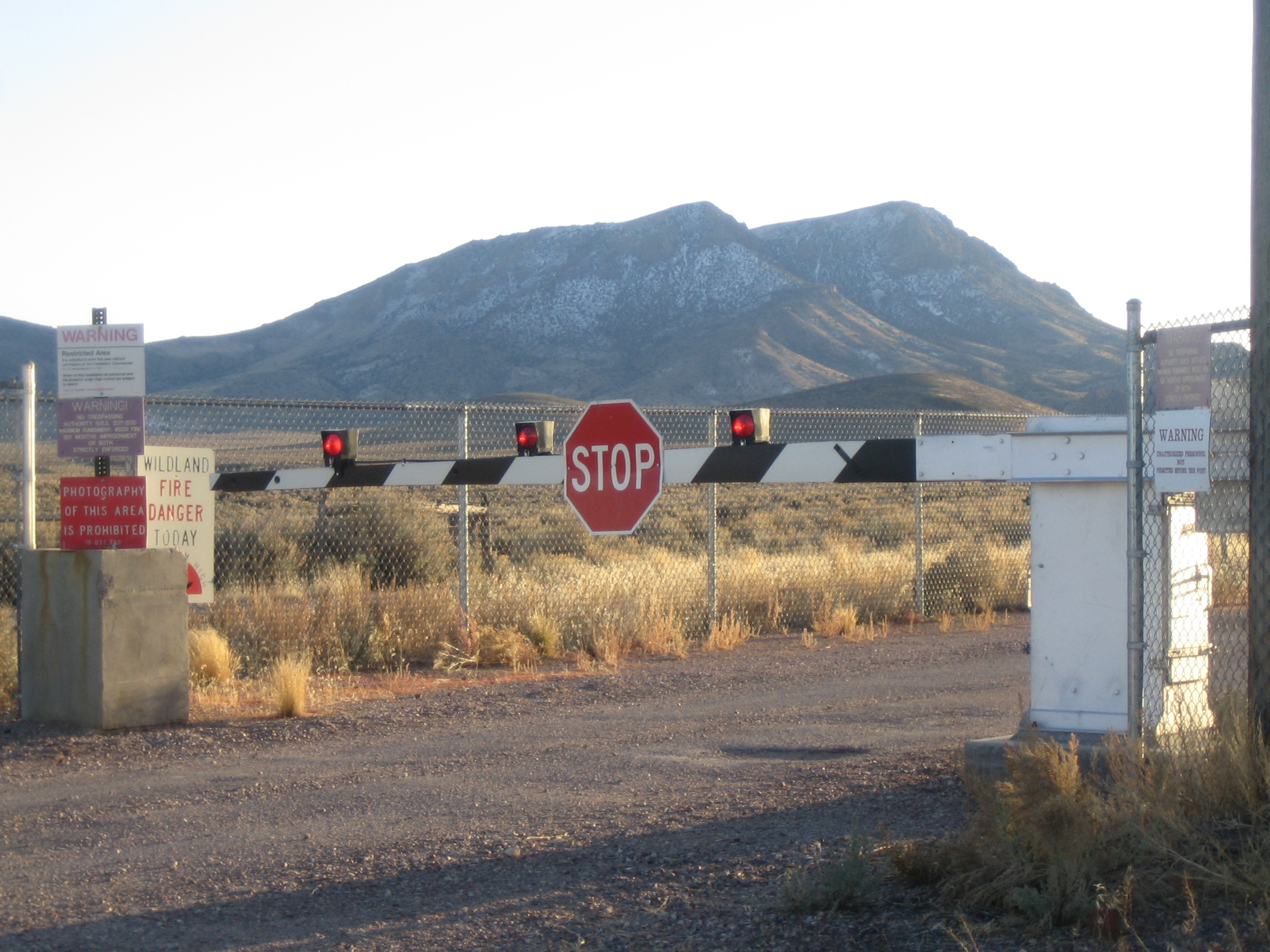 Back Gate to Area 51